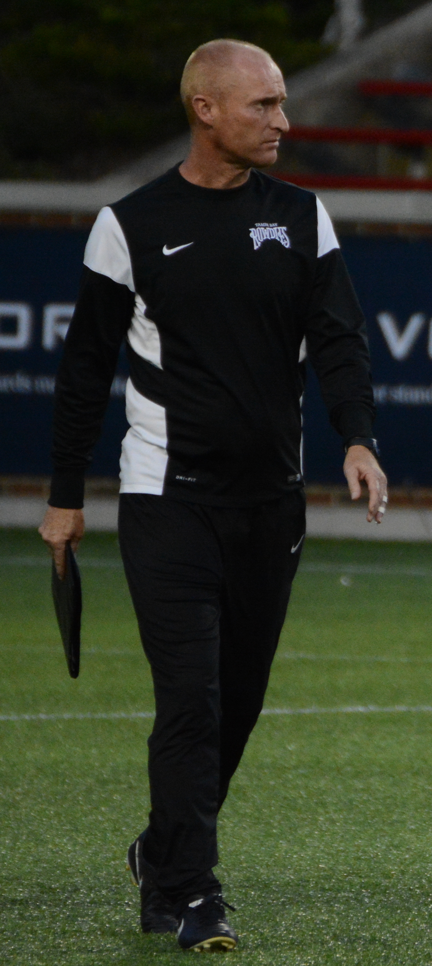 Stuart Dobson, Stuart Campbell, Raoul Voss Taken during a match between FC Cincinnati and Tampa Bay Rowdies at Nippert Stadium in Cincinnati, USA on April 19, 2017.